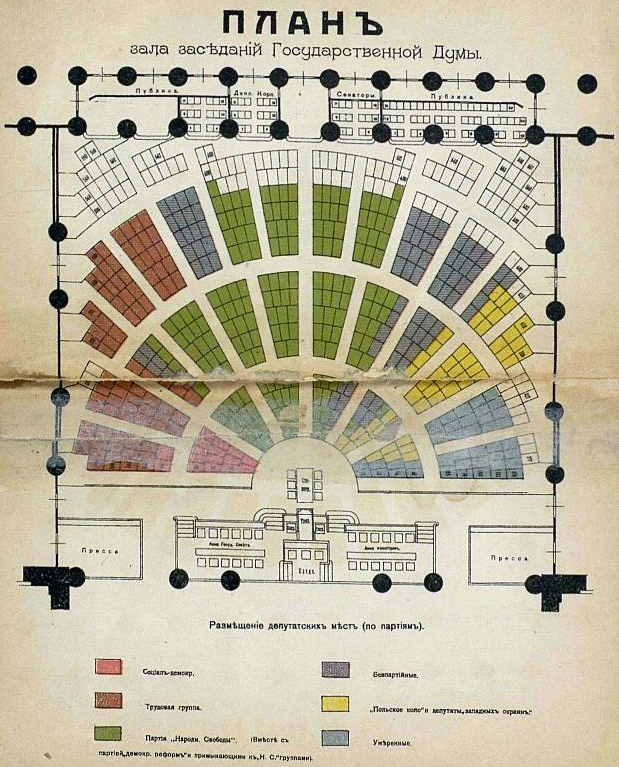 Plan of State Duma of the Russian Empire of the first convocation